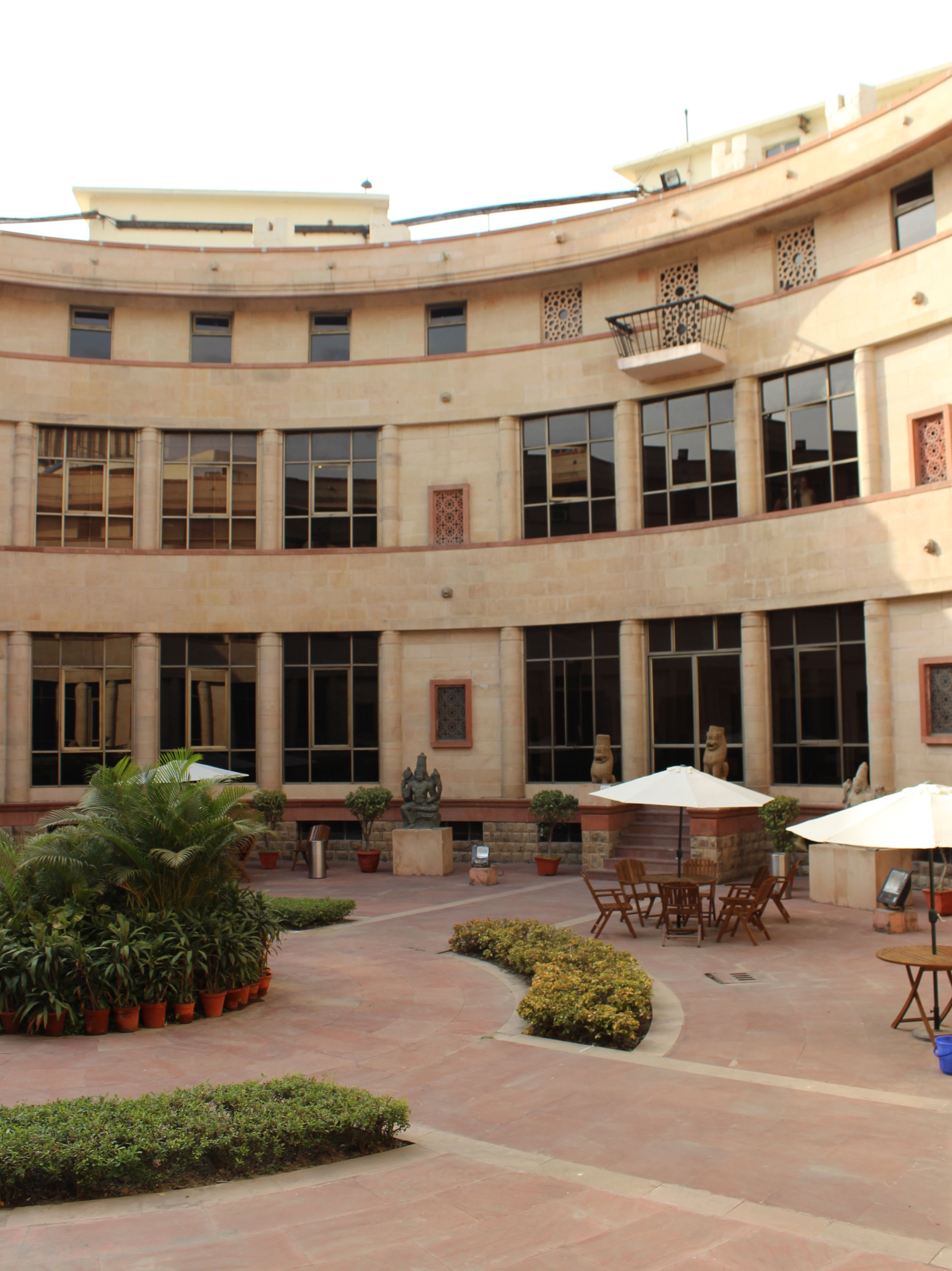 Inside the Galleries of National Museum, New Delhi